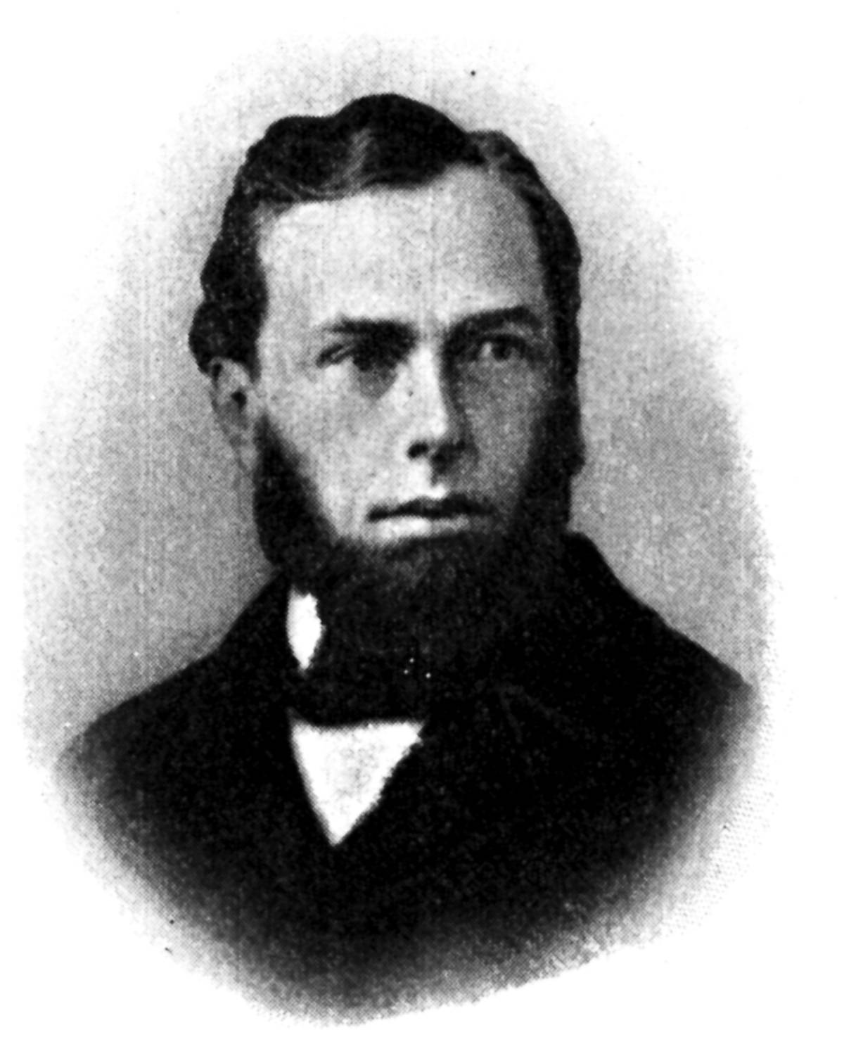 Max Johann Sigismund Schultze (1825 — 1874)